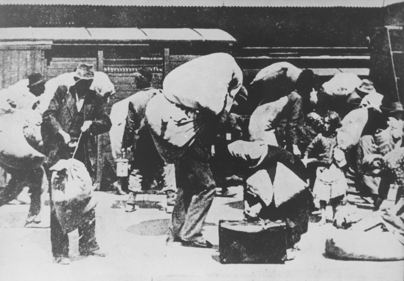 Serbs living in the Independent State of Croatia, who have been expelled from their homes, march out of town carrying large bundles.